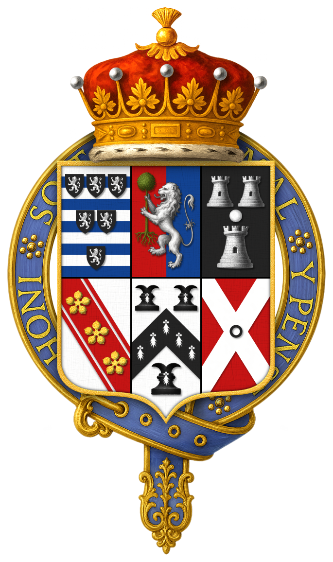 Coat of arms of Sir William Cecil, 2nd Earl of Exeter, KG